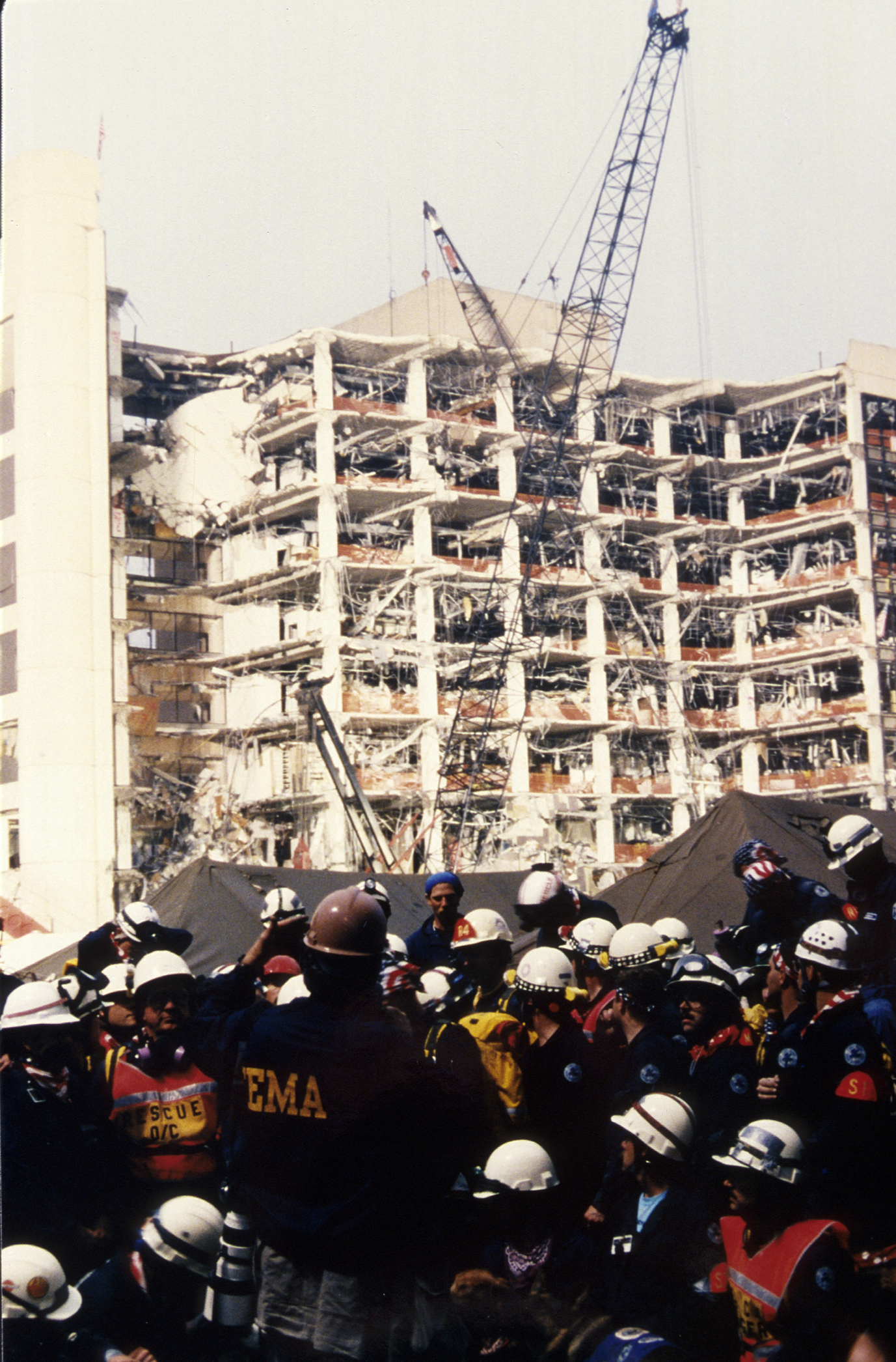 Oklahoma City, OK, April 26, 1995 -- Search and Rescue workers gather at the scene of the Oklahoma City bombing. FEMA News Photo